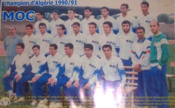 MOConstantine